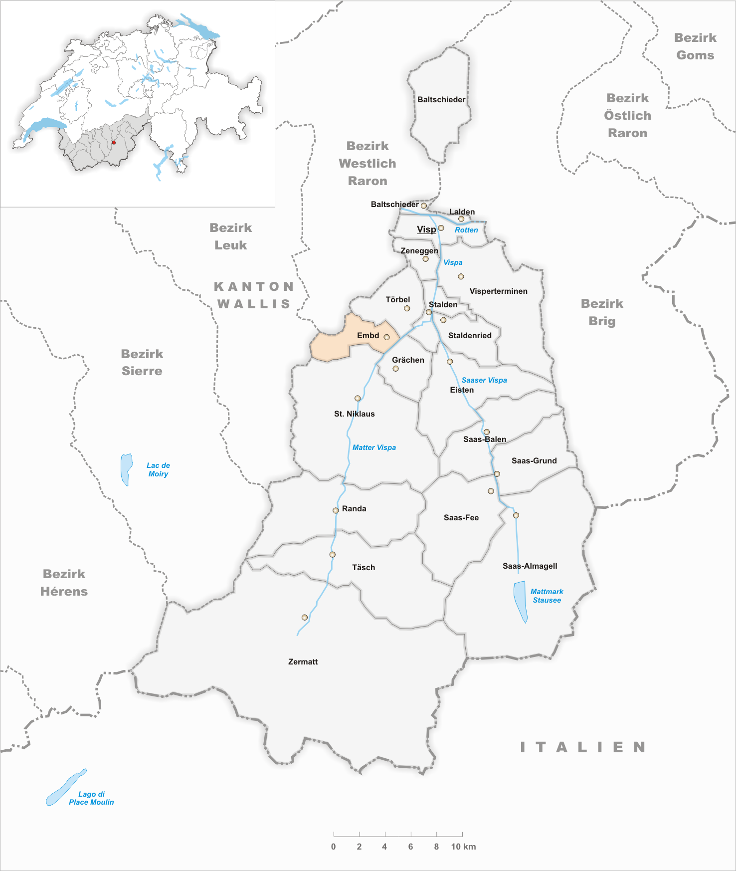 Municipality Embd